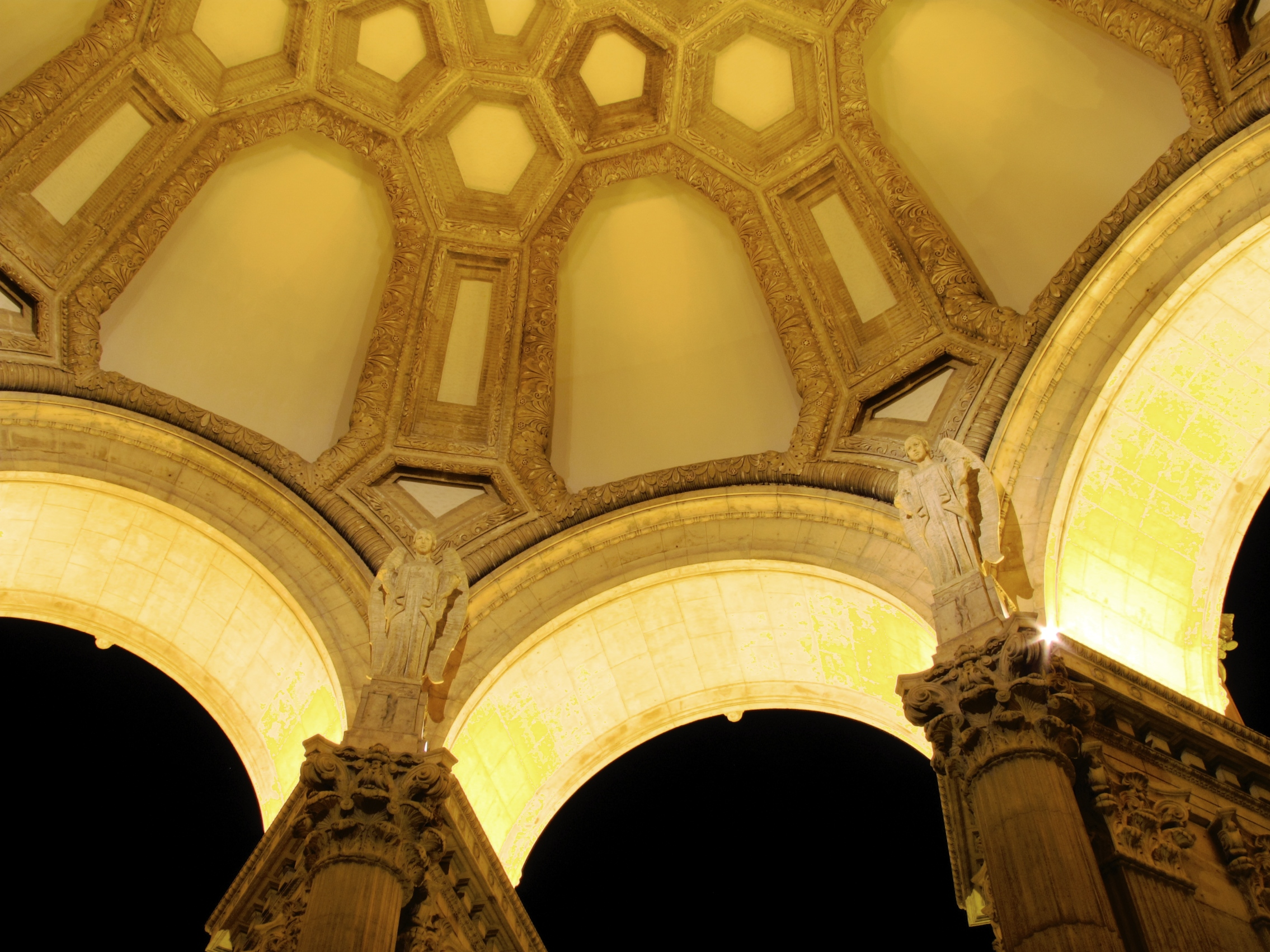 Palace of Fine Arts at night, January 30, 2010. By Dan Martin.